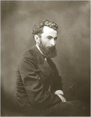 Portrait of Niko Nikoladze. 1880.